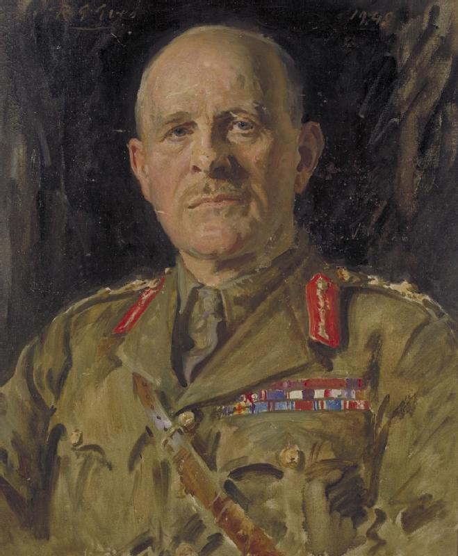 General the Viscount Gort Vc, Gcb, Cbe, Dso, Mvo, Mc image: A head and shoulders portrait of Gort wearing uniform.